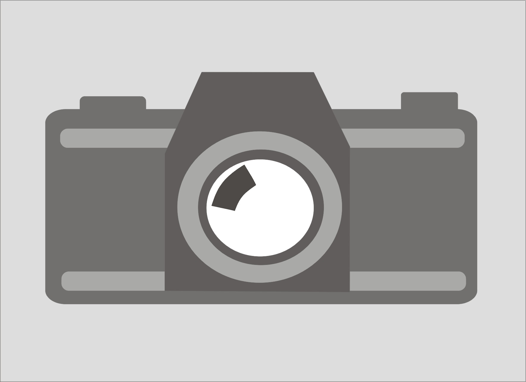 created by myself